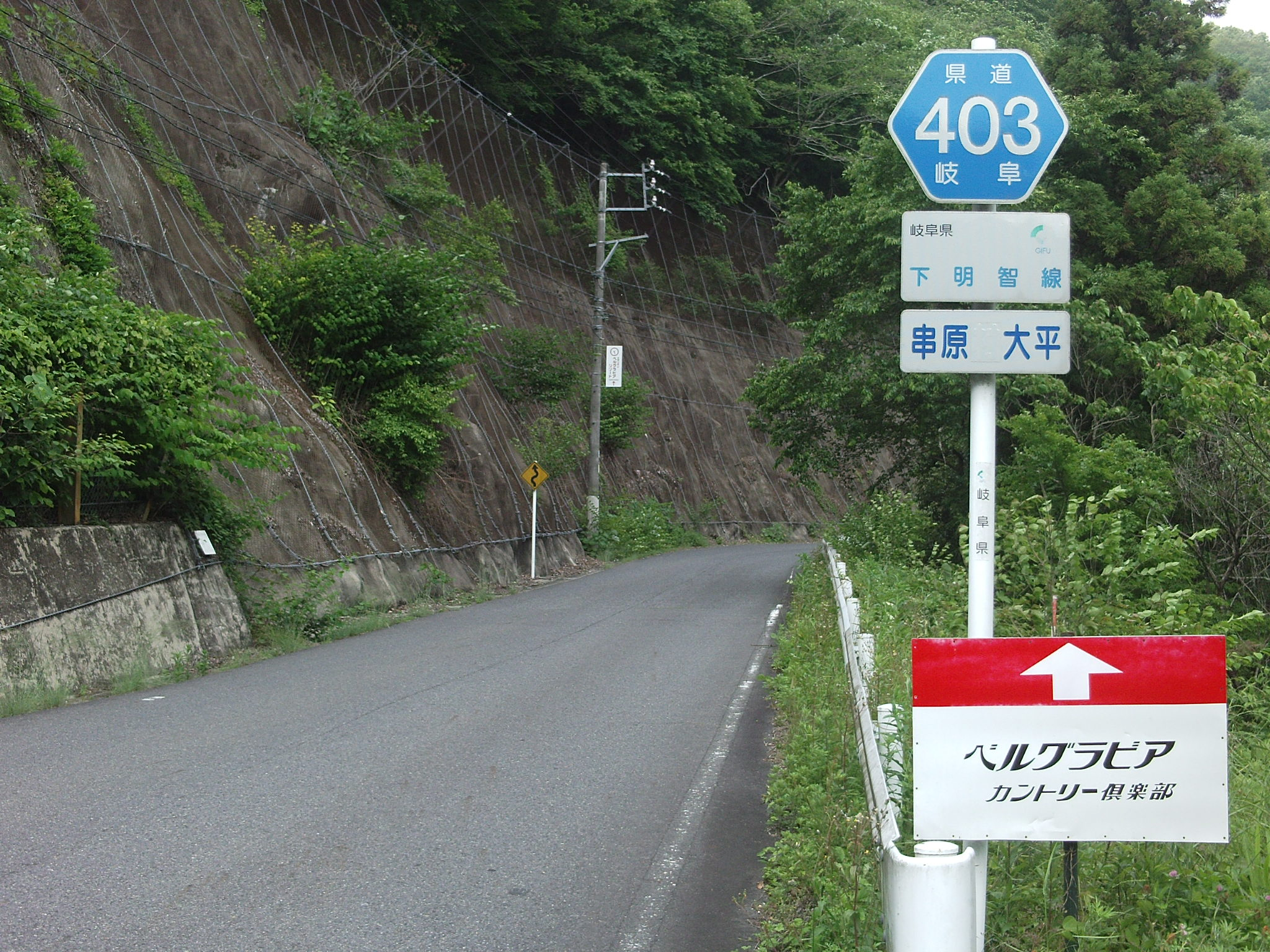 Gifu prefectural road No.403 in Kushihara Odaira, Ena, Gifu.